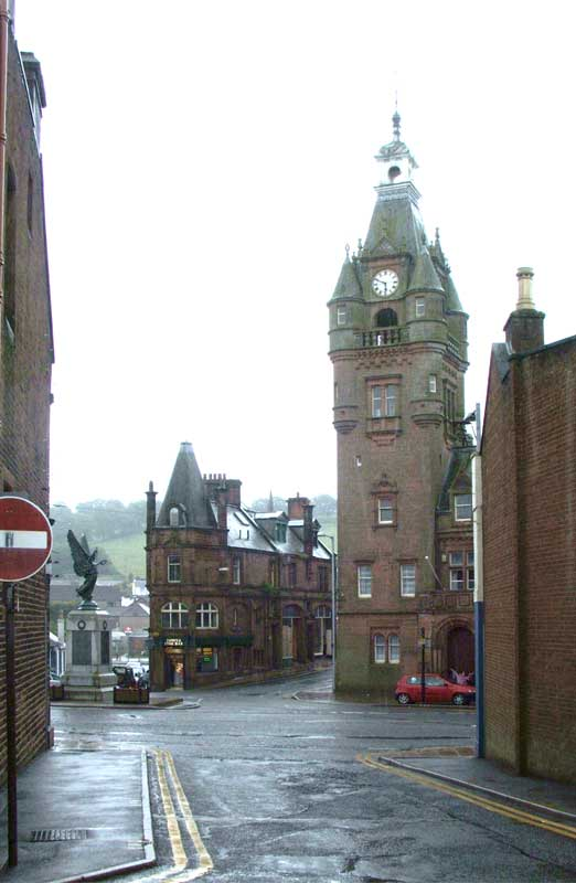 Taken and donated by user:Guinnog, July 2006